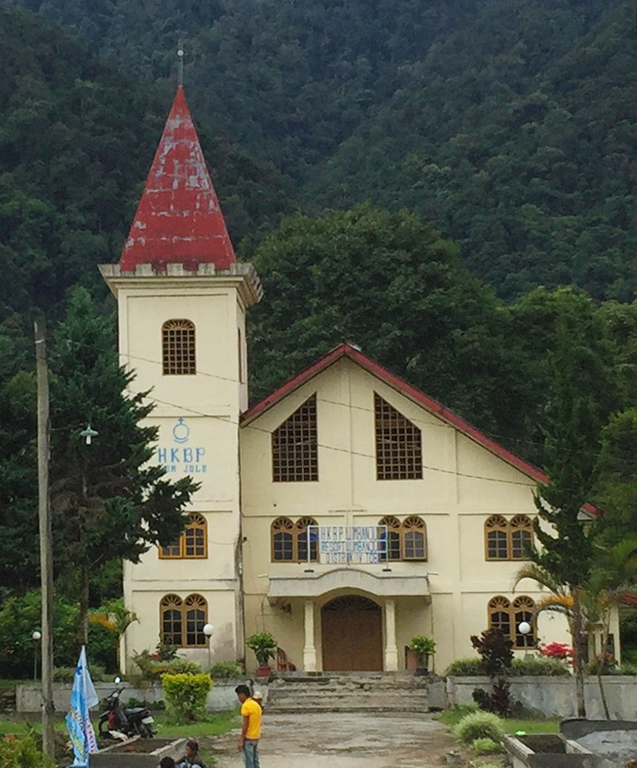 HKBP Lumban Julu, Church in Jumban Julu, Toba Samosir